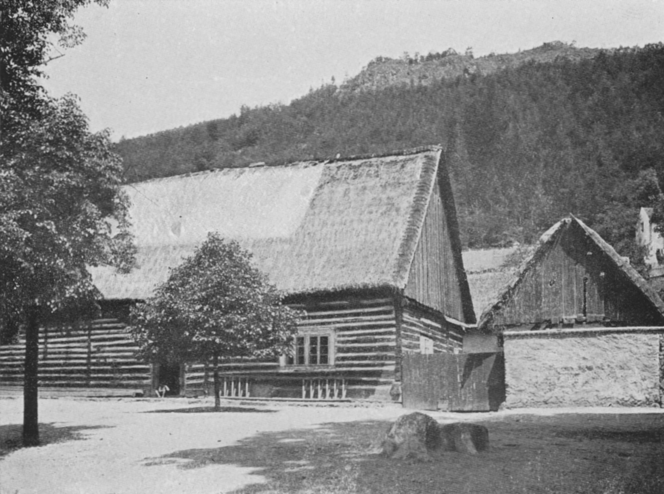 Zbečno, Farm (Hamousův statek)